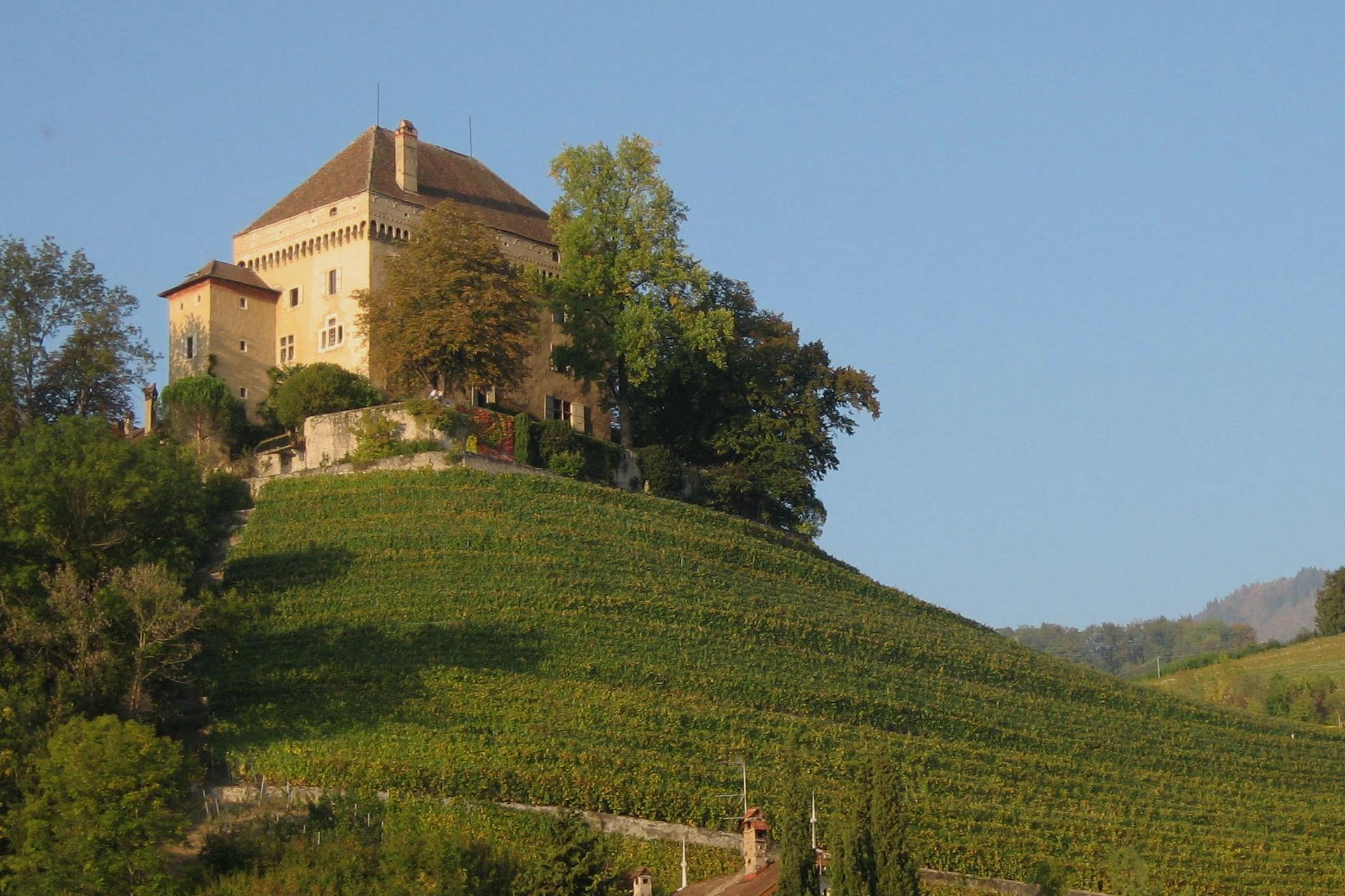 Castel Châtelard in the near of Clarens in Switzerland. Photo taken on September 2011.